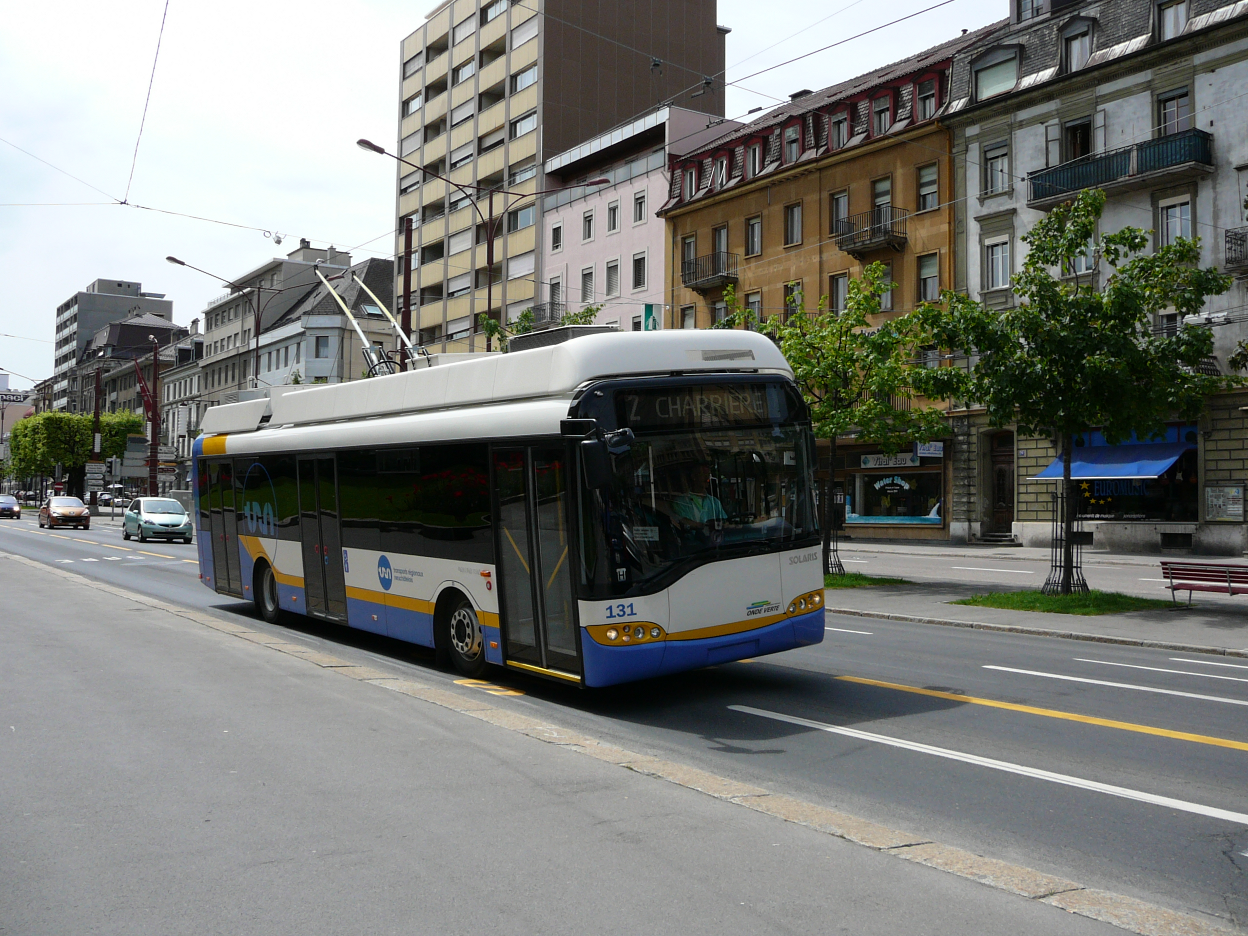 Solaris Trollino 12AC trolleybus (#131, built 2004) in La Chaux-de-Fonds, Switzerland. Transports Régionaux Neuchâtelois (TRN) operator.